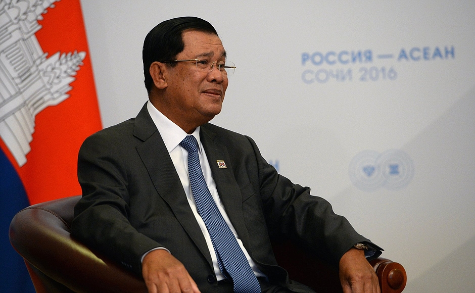 Vladimir Putin met with Prime Minister of Cambodia Hun Sen on the sidelines of the Russia-ASEAN summit.